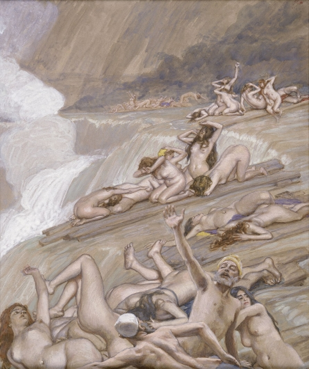 The Deluge, c. 1896-1902, by James Jacques Joseph Tissot (French, 1836-1902), gouache on board, 10 7/16 x 8 3/4 in. (26.6 x 22.4 cm), at the Jewish Museum, New York